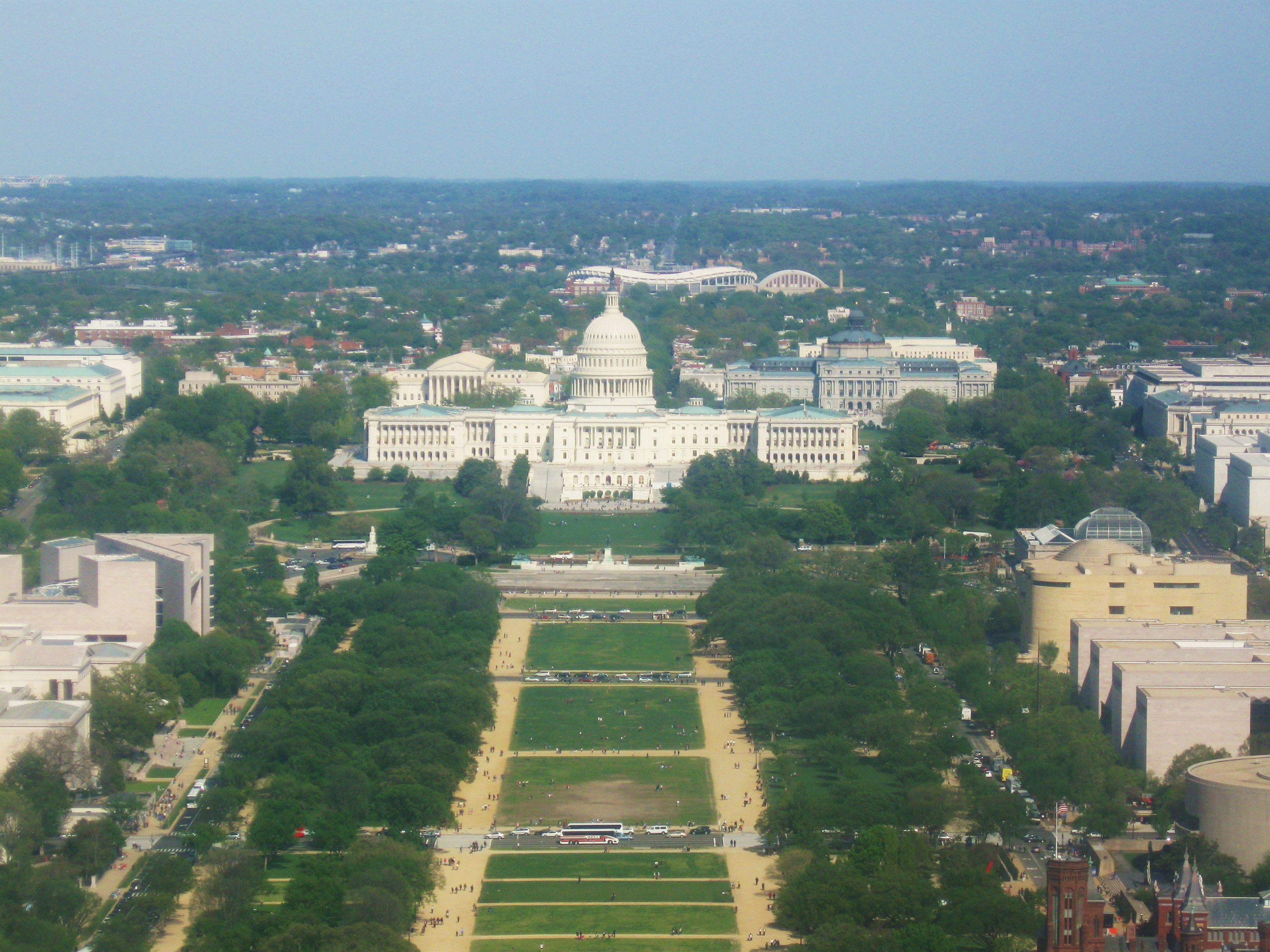 A photograph of the view of the National Mall and the United States Capitol from the top of the Washington Monument.